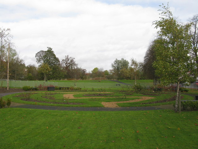 Rose Gardens in Househill Park, Glasgow